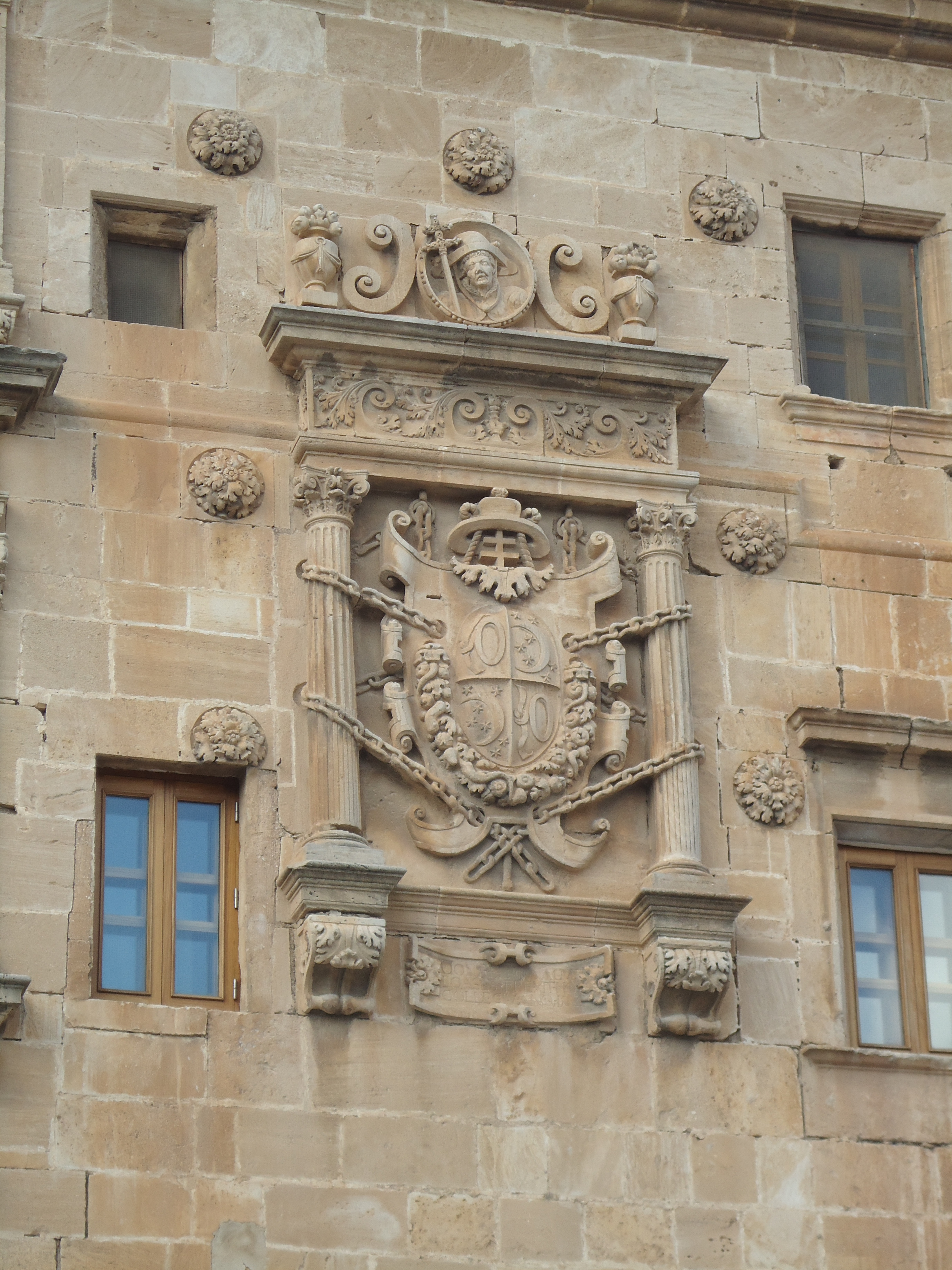 Escut, a la façana lateral, del colegi de Santo Domingo. Oriola